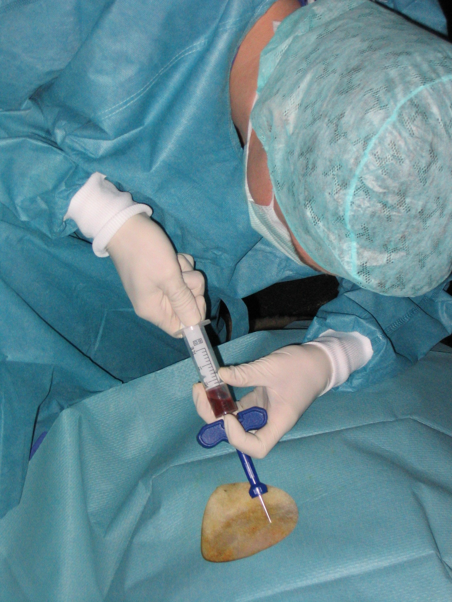 Bone marrow biopsy from the hip bone in a sheep